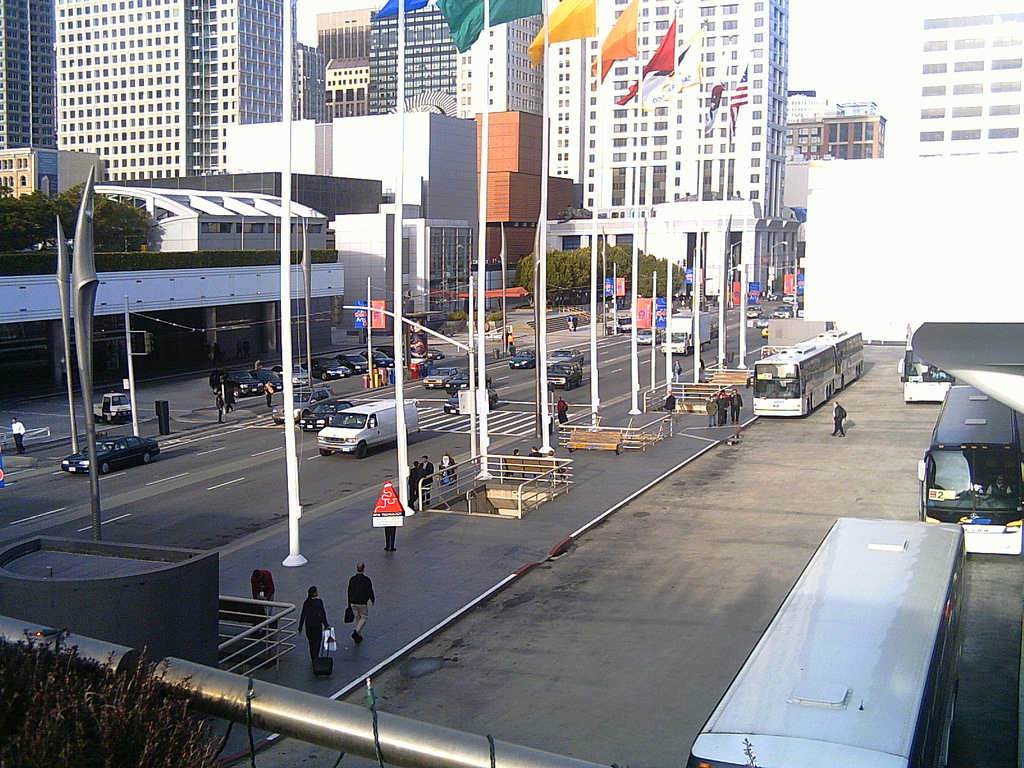 Colored flags flying high outside the Moscone Convention Center.